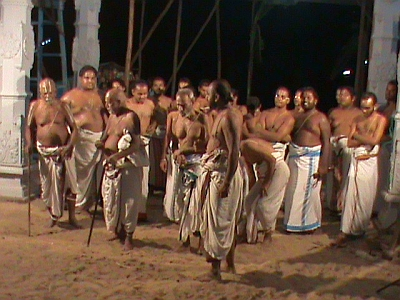 Veda Parayanam at Vaduvur Kothandaramar Temple